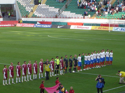 Russia 1:0 Latvia. International friendly football match on Lokomotiv stadium, Moscow.